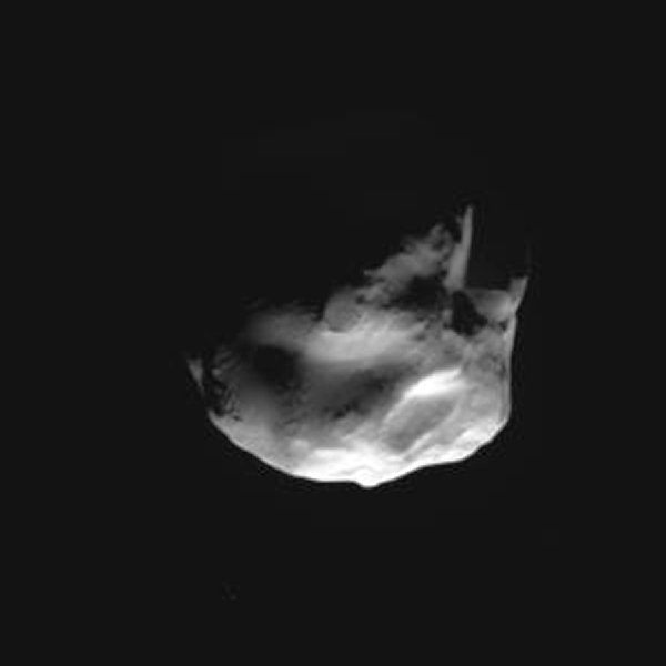 This raw, unprocessed image of Helene was taken by Cassini on March 3, 2010. The image was taken in visible light with the Cassini spacecraft wide-angle camera. The view was acquired at a distance of approximately 1,900 kilometers (1,200 miles) from Helene. Image scale is 235 meters (770 feet) per pixel. The Cassini Equinox Mission is a joint United States and European endeavor. The Jet Propulsion Laboratory, a division of the California Institute of Technology in Pasadena, manages the mission for NASA's Science Mission Directorate, Washington, D.C. The Cassini orbiter was designed, developed and assembled at JPL. The imaging team consists of scientists from the US, England, France, and Germany. The imaging operations center and team lead (Dr. C. Porco) are based at the Space Science Institute in Boulder, Colo. For more information about the Cassini Equinox Mission visit and The original NASA image has been modified by cropping, doubling the linear pixel density and reducing midtone contrast. These edits were made to center the feature of interest, remove excess black background and bring out detail which is hard to see in the small original.